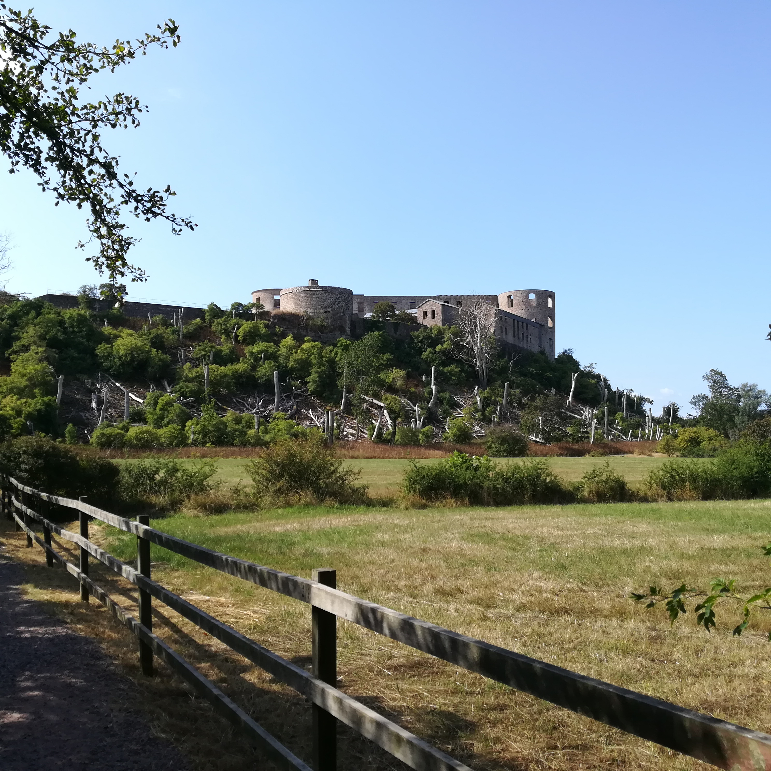 Borgholm castle ruine on a ridge, protecting the port of Borgholm